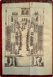 The Commonwealth Government of James Harrington